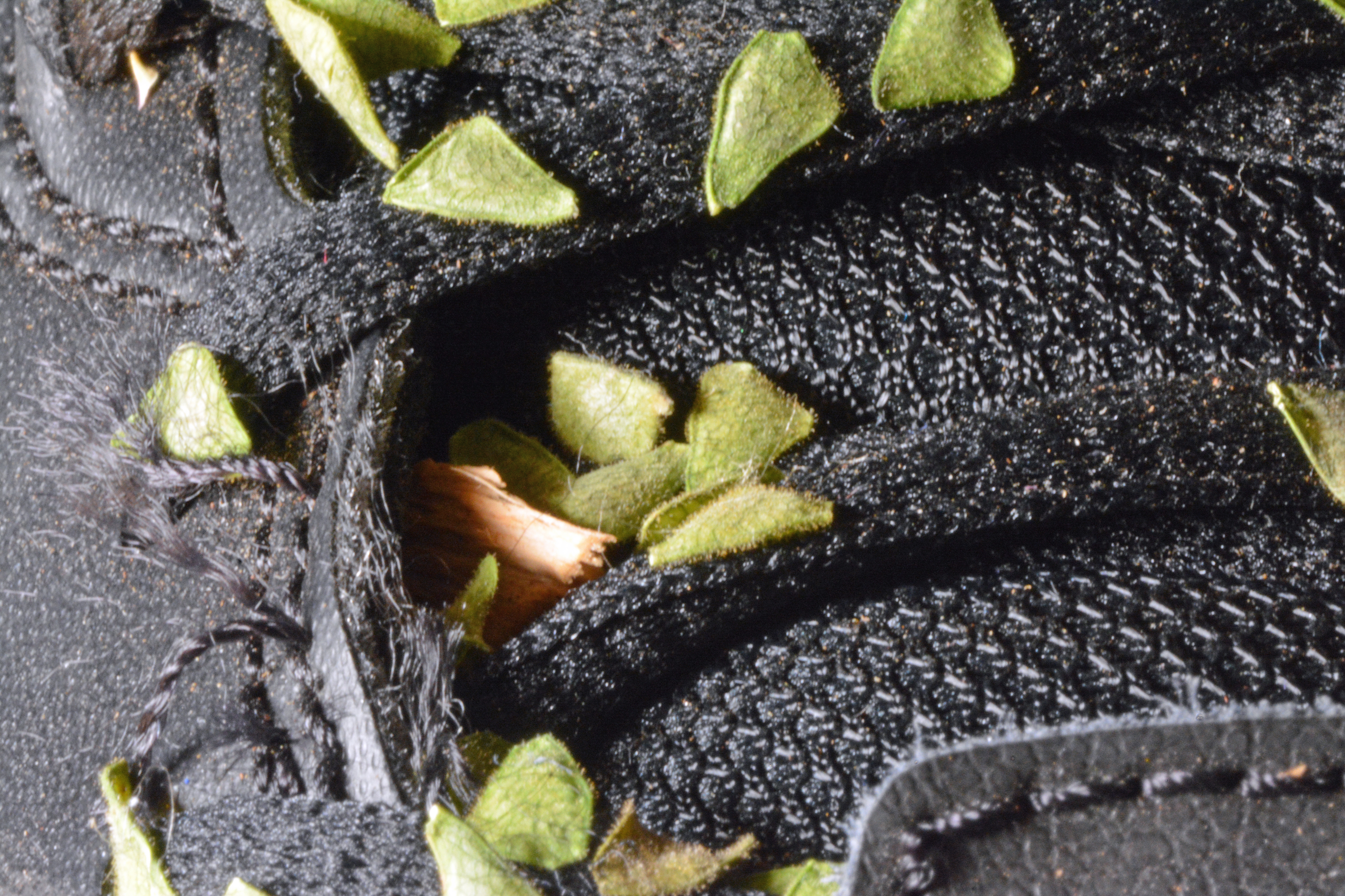 Certain Desmodium seeds readily stick to many objects